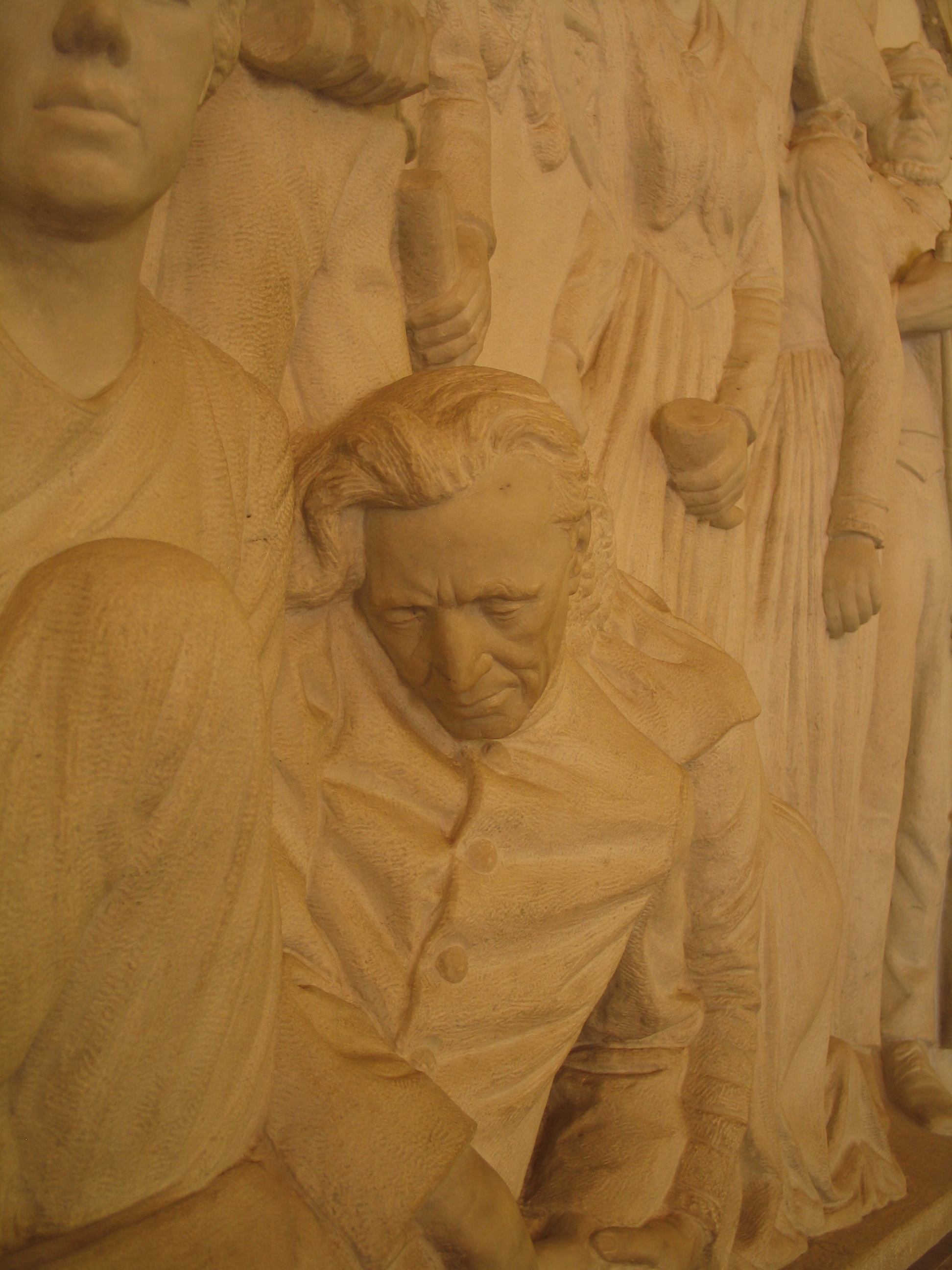 A part of the historical frieze in the Hall of Heroes of the Voortrekker Monument, Pretoria. It depicts a wounded voortrekker at the Battle of Vegkop on October 16, 1836. The boy and woman in the background are carrying gunpowder in powder-horns. The Battle of Vegkop involved an attack by 6,000 Ndebeles on the trek of Hendrik Potgieter. Though failing to penetrate the laer the Ndebeles raided all the cattle, oxen and horses. The Trekkers were assisted by the Rolong tribe who supplied them with oxen to continue the trek, a scene depicted on an adjacent frieze. ↑ Rademeyer, Alet (2012-10-25 22:48). "‘Klipouma’ kon jas, skoene koop". Beeld. Retrieved on 26 October 2012.